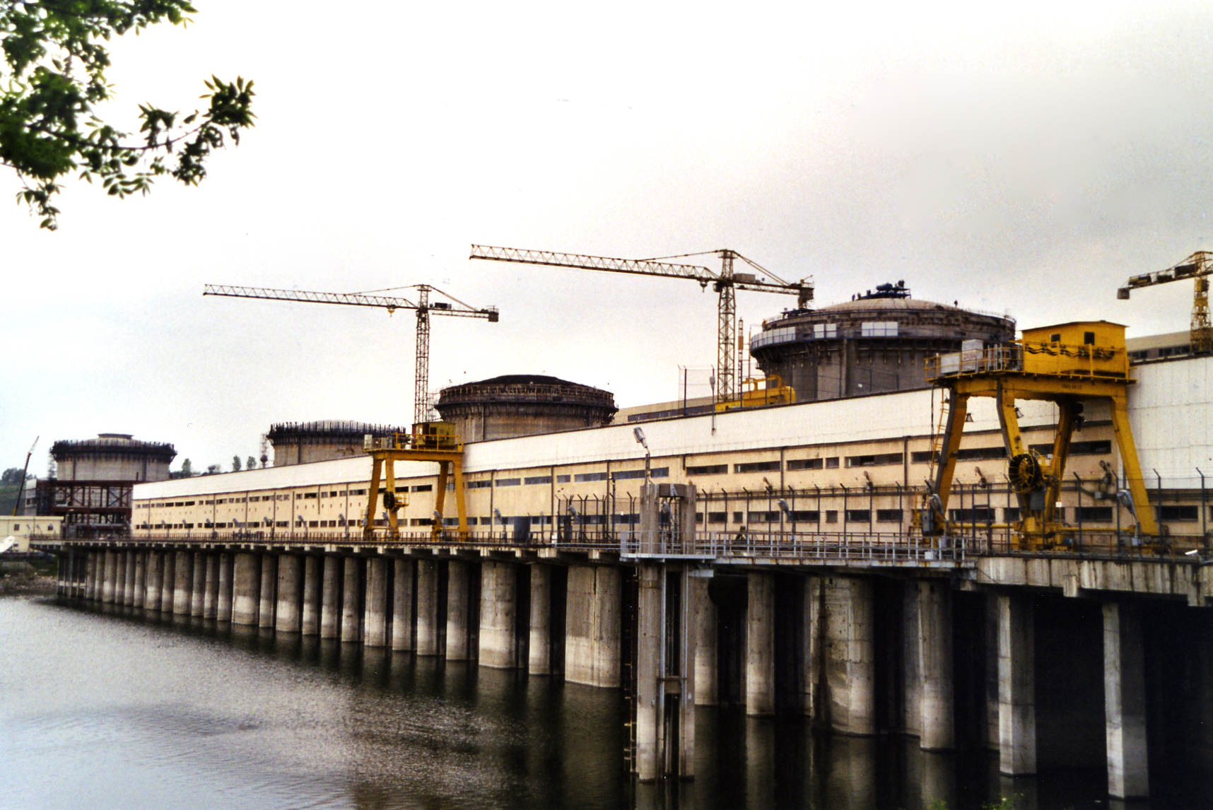 View from the fresh water pond of the Cernavoda nuclear power station in Romania. The photo, which show Candu type reactors, was taken during IPPAS (International Physical Protection Advisory Service) mission to Romania whcih took place in April-May 2002.